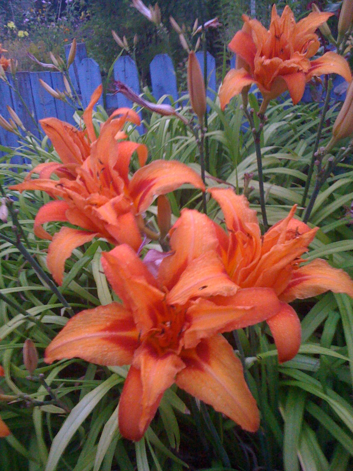 Orange Daylilys as they grow around the entrance to my allotment garden.